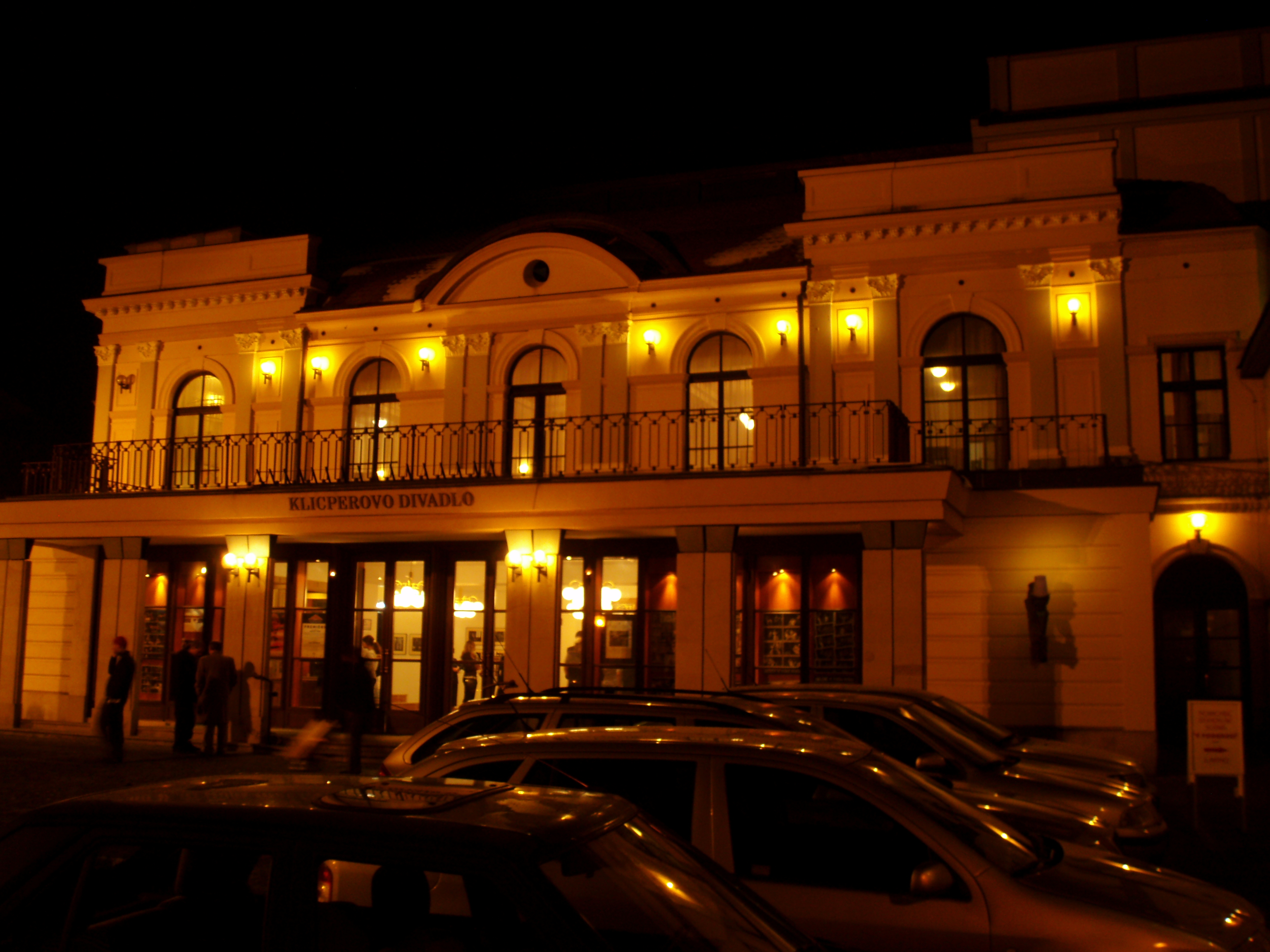 Klicpera Theater in Hradec Králové